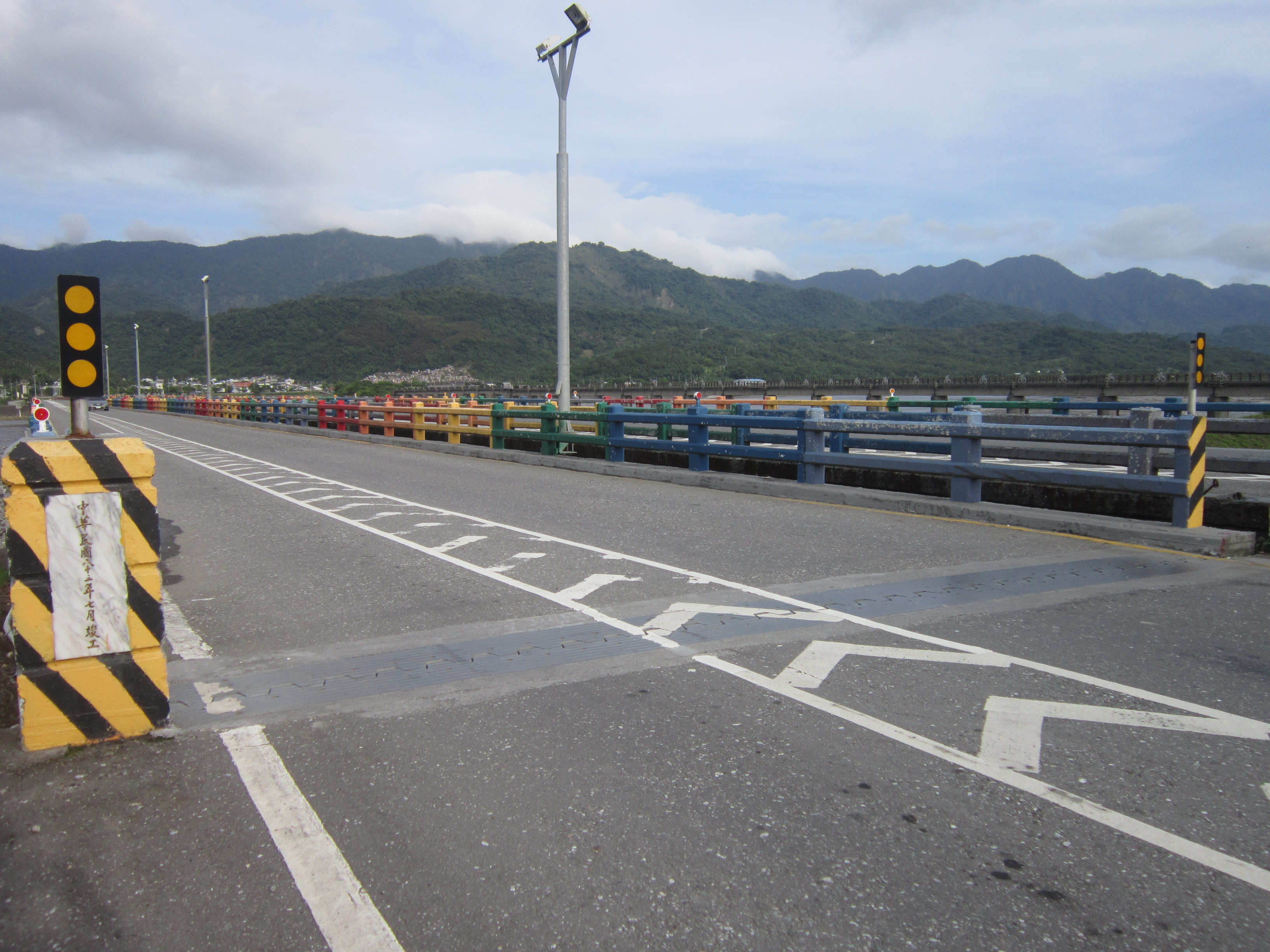 Yuli_Bridge_1